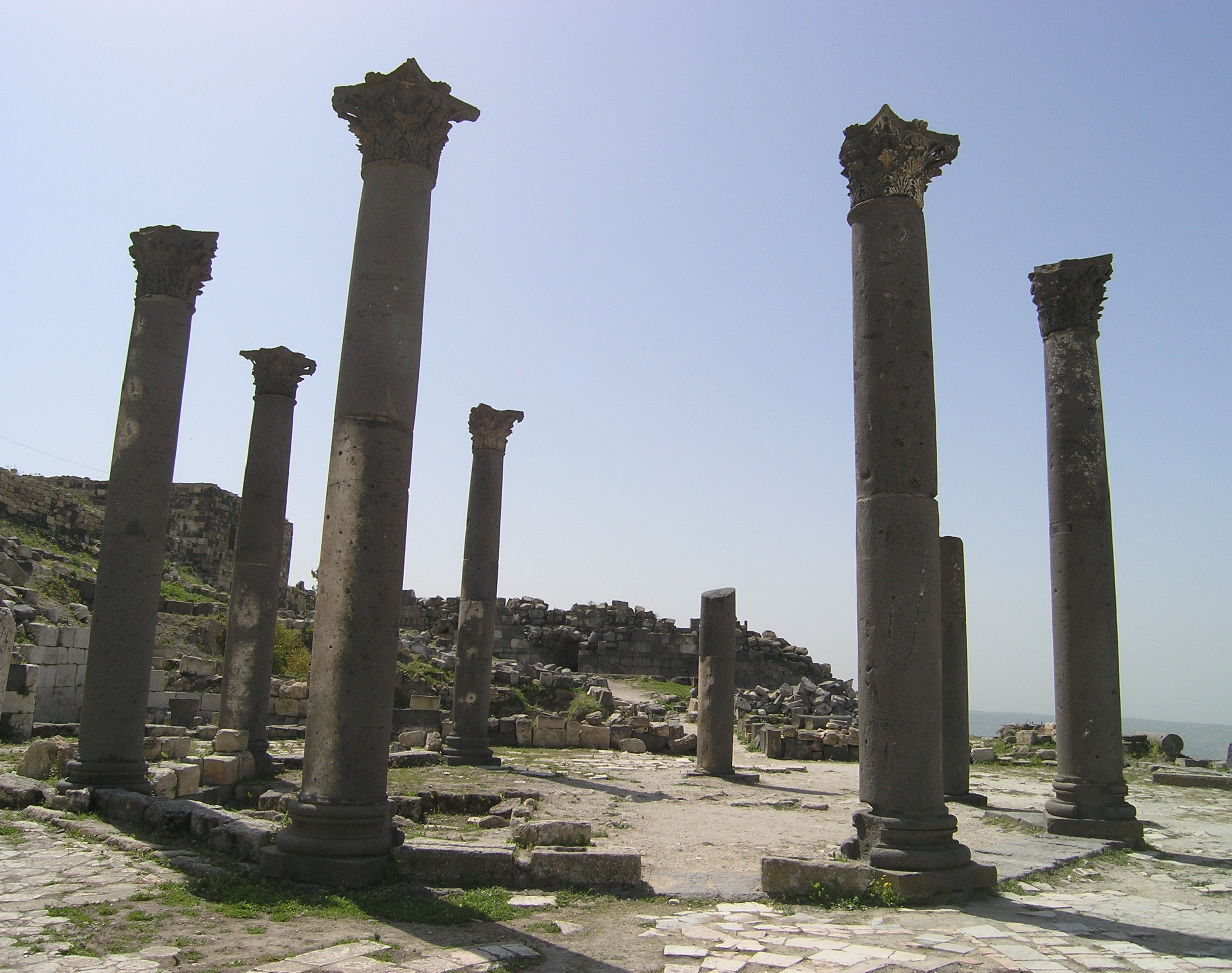 Columns of the octogonal church in Gadara, Jordan